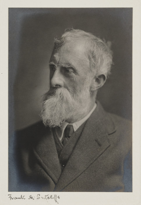 Creator: Frank Meadow Sutcliffe (1853 - 1941) Date: c. 1928 Format: Photograph; platinum print Material: Paper Collection: The Royal Photographic Society Collection at the National Media Museum Inventory no: 2003-5001/2/22855/1 Blog post: Snappy 5th birthday Flickr Commons Frank Meadow Sutcliffe (1853 - 1941) was an English photographer, born in Leeds. He is well known for his photographs of ordinary working people in Whitby and the surrounding areas. Sutcliffe was made an Honorary Fellow of the Royal Photographic Society in 1935.